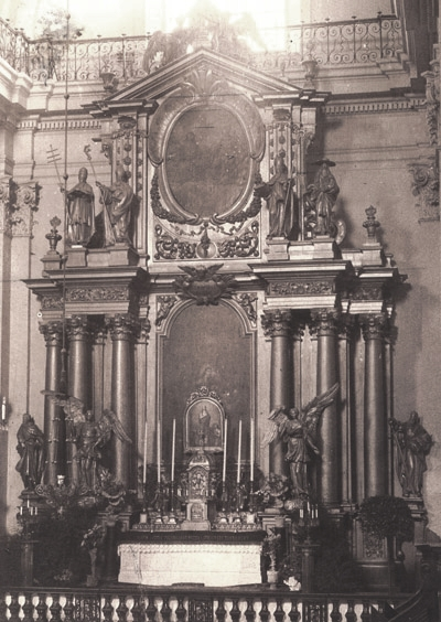 Altar of Homeland (Blessed Sacrament), symbolizing the national unity. The profuse baroque altar was constructed in about 1700 according to design by a prominent architect Tylman Gamerski. On September 6, 1944 when Germans detonated two large Goliath tracked mines in the church (they usually carried 75–100 kg (165–220 lb) of high explosives) the altar was completely destroyed, together with the facade of the church, vaulting, high altar and side altars.[1]